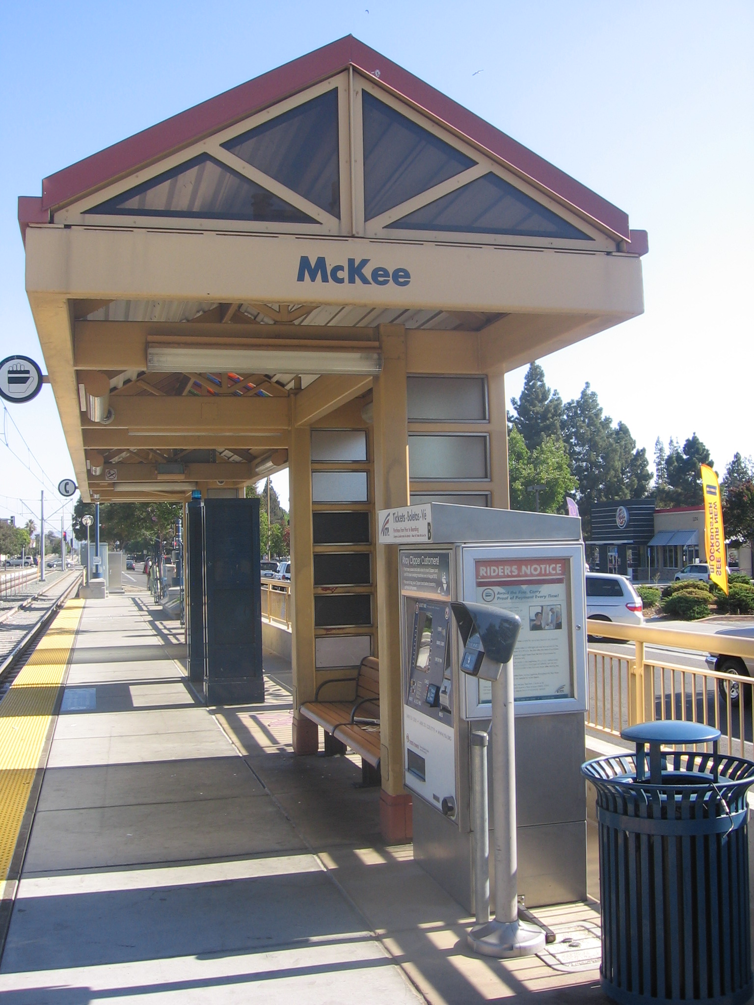 The McKee (VTA) light rail station in San José, California, USA.